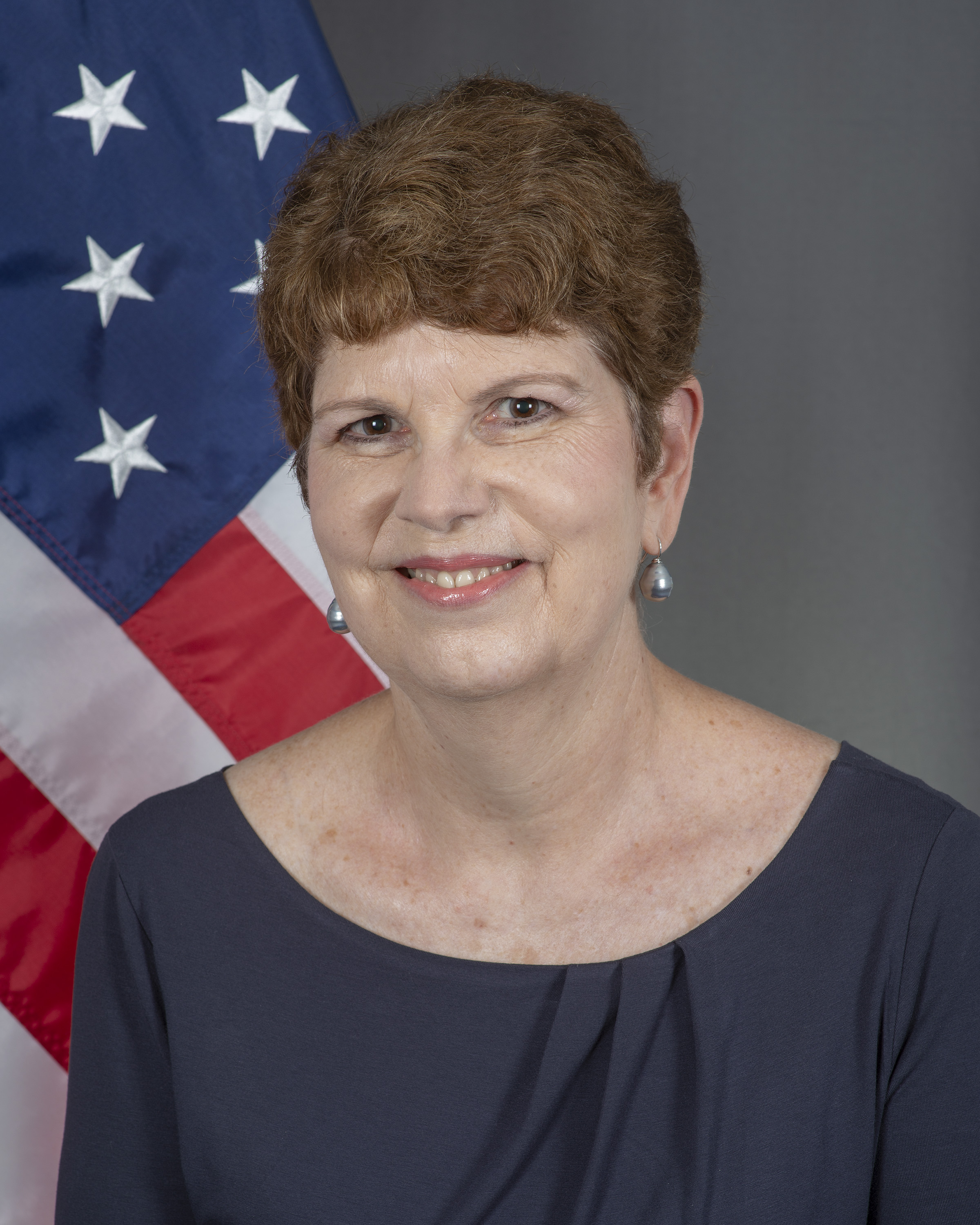 Robin S. Quinville, Deputy Chief of Mission at the Embassy in Berlin